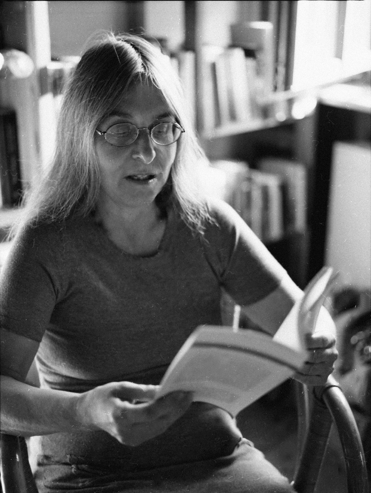 Author Monika Böss